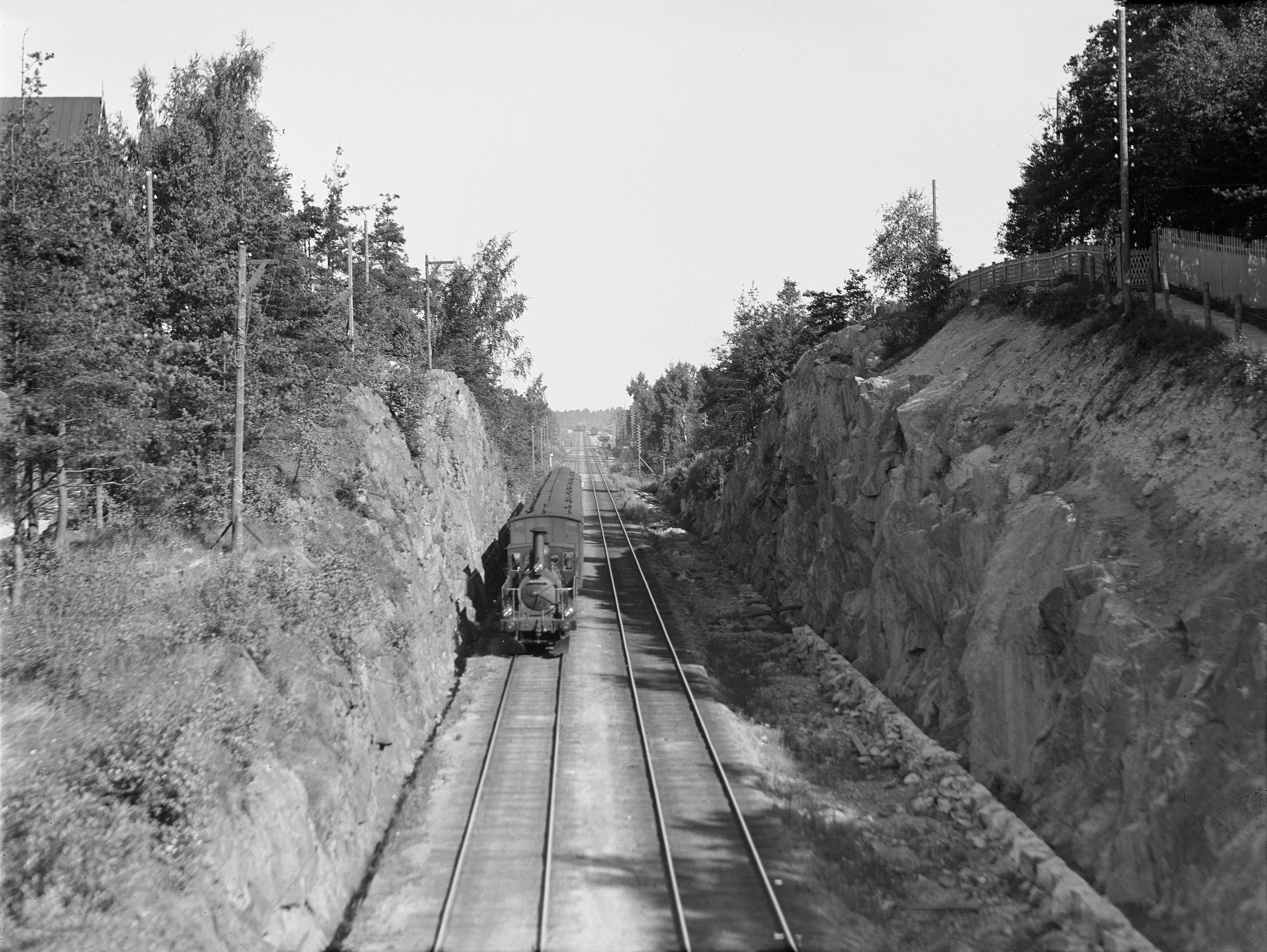 Train running trough Linnunlaulu rock cutting in Helsinki, Finland.